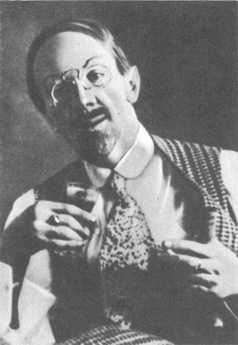 Russian Michael Chekhov (1891-1955), 1915_as_Frazer